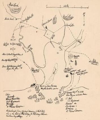 Map of the British invasion of New Haven, Connecticut, in July 1779. Drawing by Ezra Stiles. Image courtesy of the Yale University Manuscripts & Archives Digital Images Database, Yale University, New Haven, Connecticut.